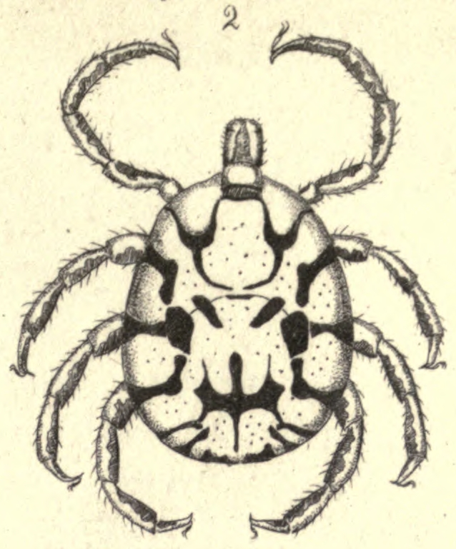 Male of Cosmiomma hippopotamensis, from description as Ixodes hippopotamensis, Denny 1843